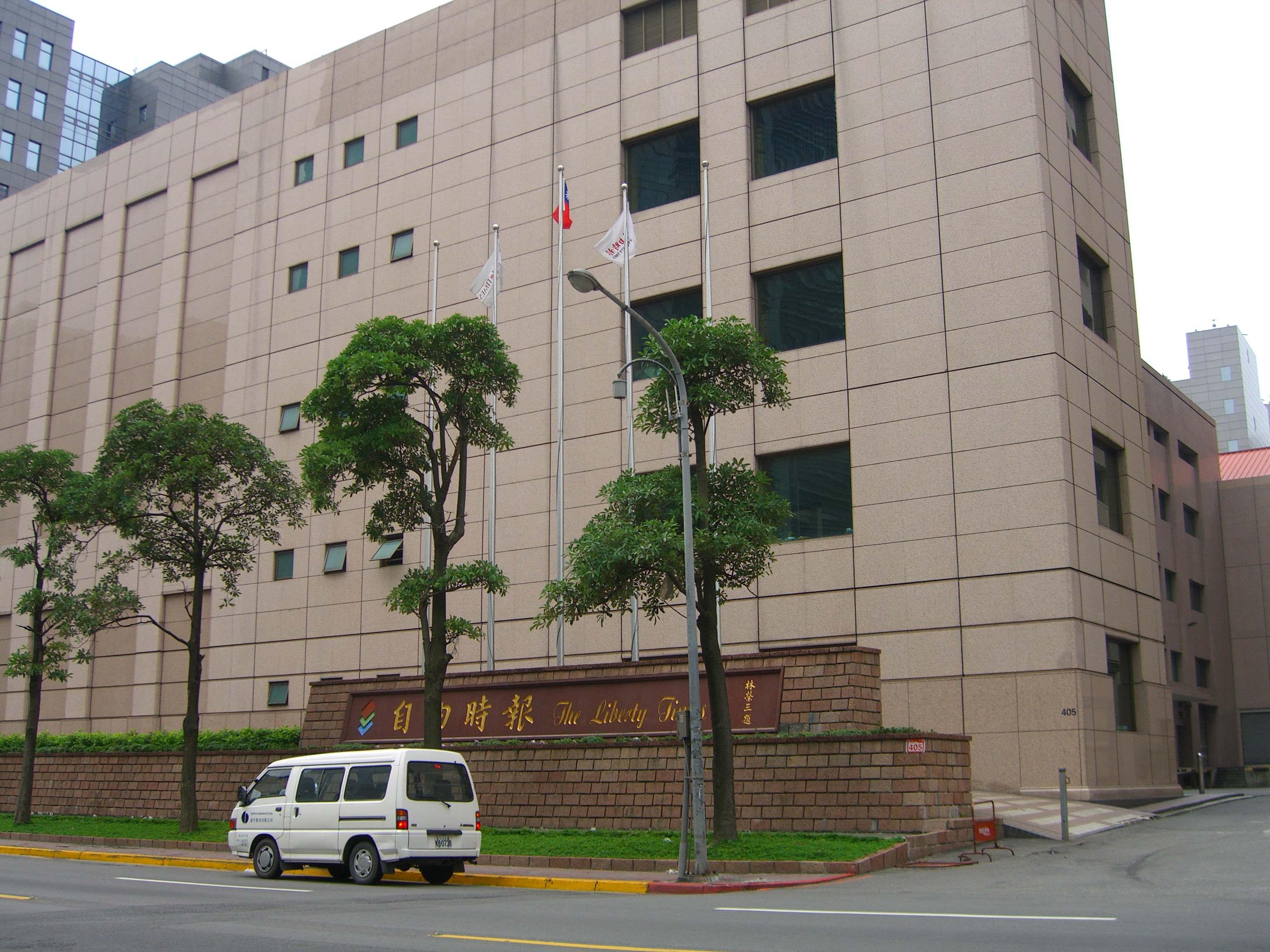 The Printing Plant of Liberty Times.中文（台灣）: 《自由時報》印刷廠的外觀。升旗台中央旗幟為中華民國國旗，中華民國國旗右方旗幟為自由時報旗，中華民國國旗左方旗幟為臺北時報旗，基座刻自由時報標誌與林榮三所題「自由時報」四字。